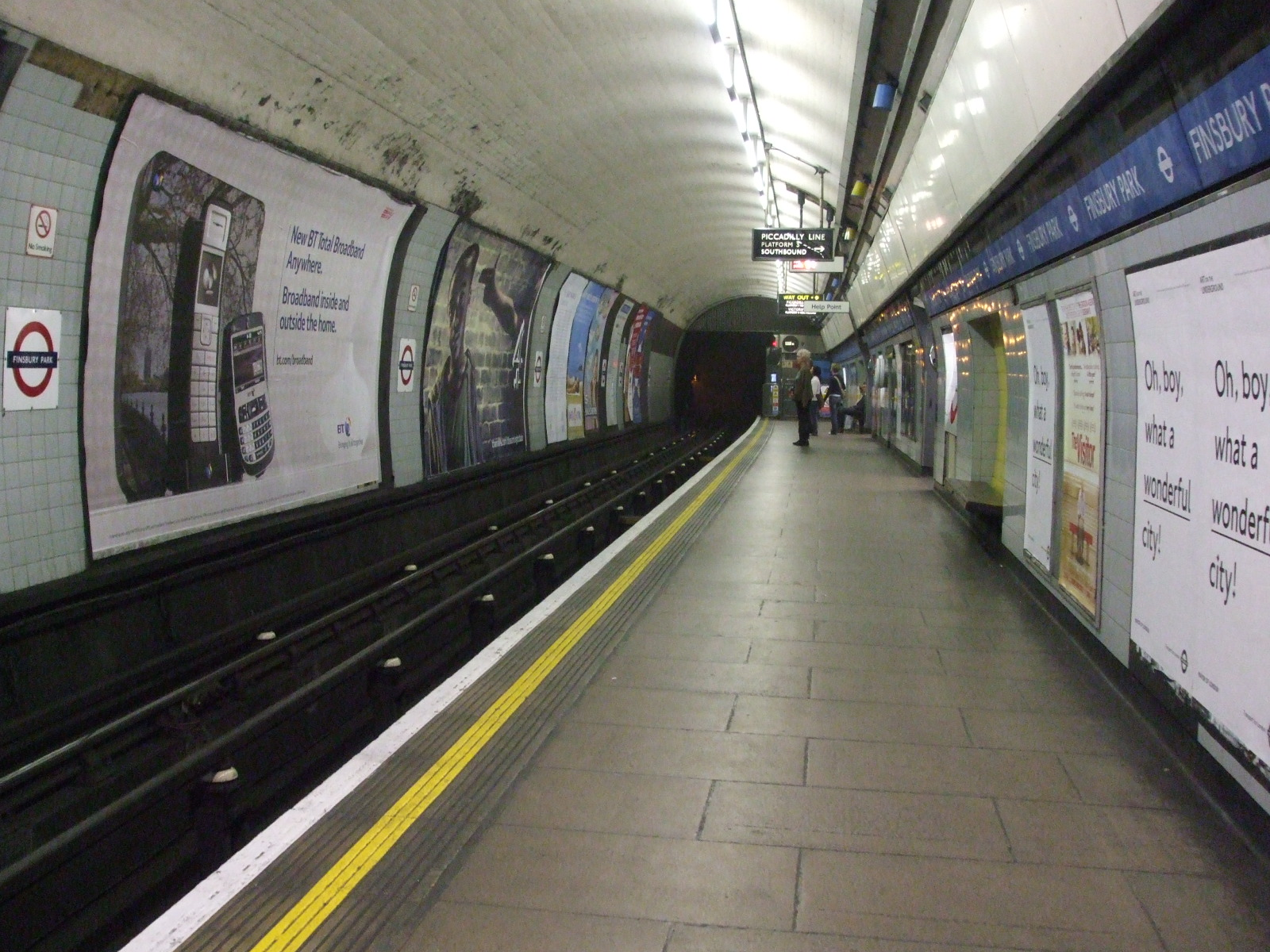 Finsbury Park tube station Victoria line southbound platform, looking south. Originally the GN&CR southbound platform - note generous tunnel mouth diameter.